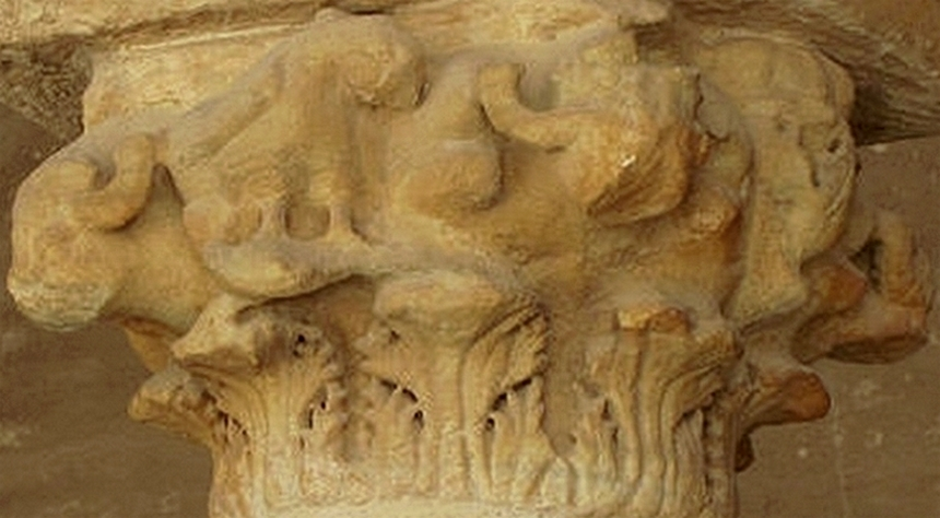 Close up of a roman or byzantine capital with bull beans in the Great Mosque of Kairouan, in Tunisia.